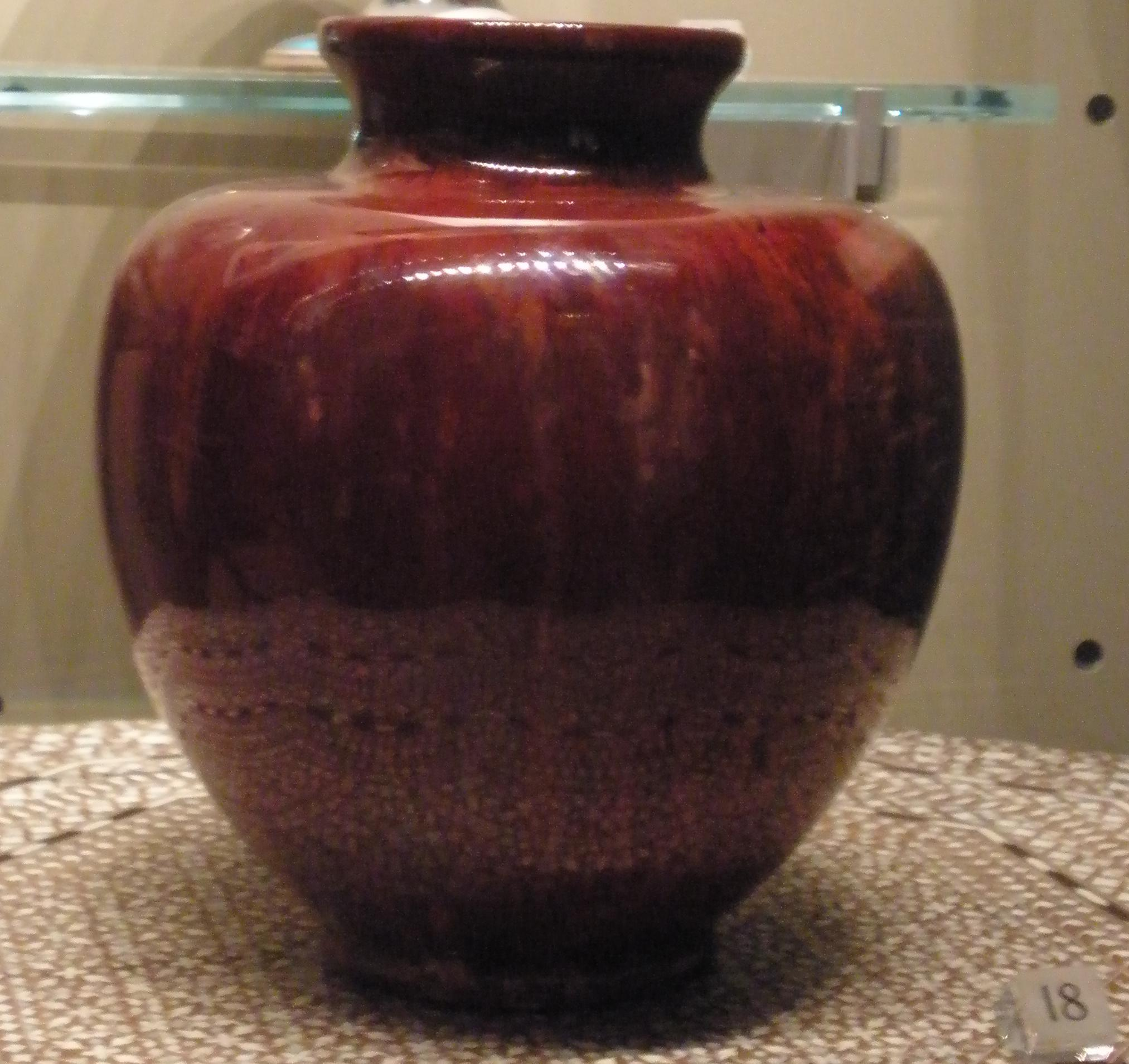 Red flambe glaze vase Dated 1903 Porcelain with a high temperature flambe glaze. Made by Bernard Moore (born in Stone, Staffordshire, 1850, died in 1935), St Mary's Works, London Museum no. 506-1905 Wikipedia Loves Art at the Victoria and Albert Museum This photo of item # 506-1905 at the Victoria and Albert Museum was contributed under the team name "va_va_val" as part of the Wikipedia Loves Art project in February 2009. Victoria and Albert Museum The original photograph on Flickr was taken by Val_McG—please add a comment to the original Flickr page whenever a use has been made on Wikipedia or another project. Project galleries on Flickr: this institution, this team